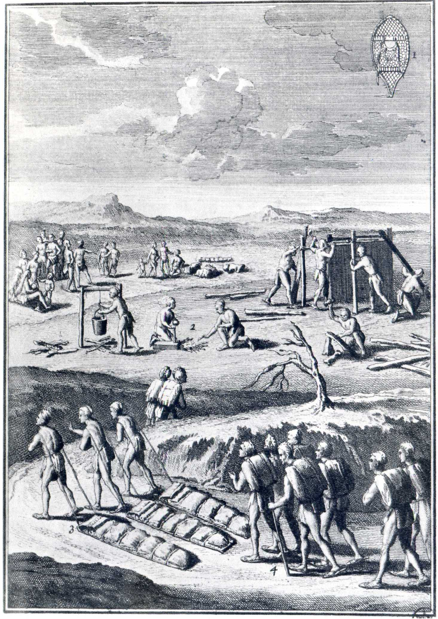 Iconographic illustration in the book "Customs of the American Indians," Joseph François Lafitau (published in 1724).